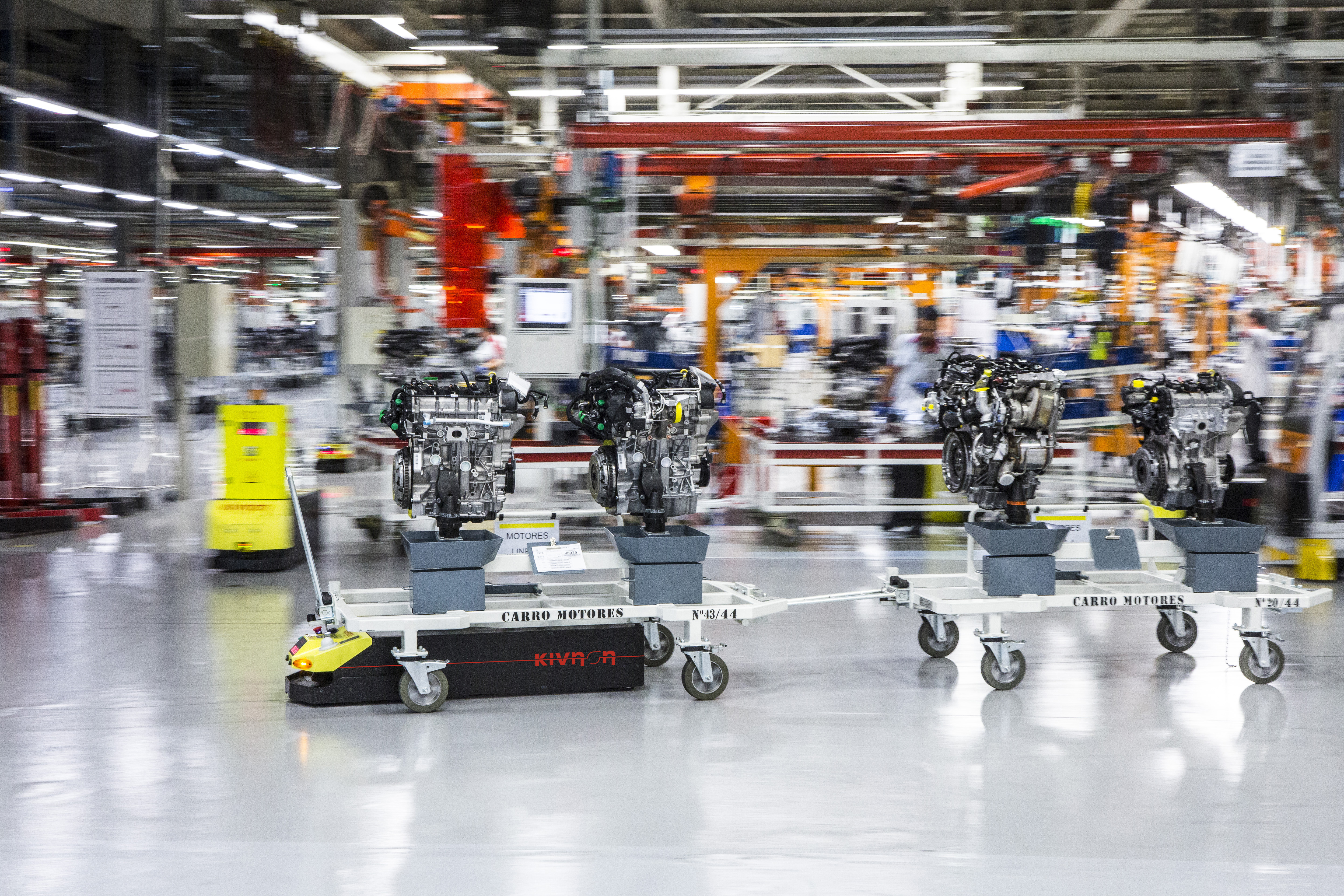 AGV carrying a trolley.